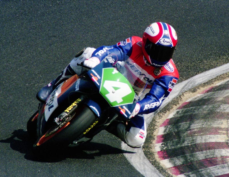 Carlos Cardus, at Japanse Grand Prix 1990